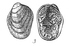 Arcoperna sericea - Fossil pliocene bivalve from North Sea Basin